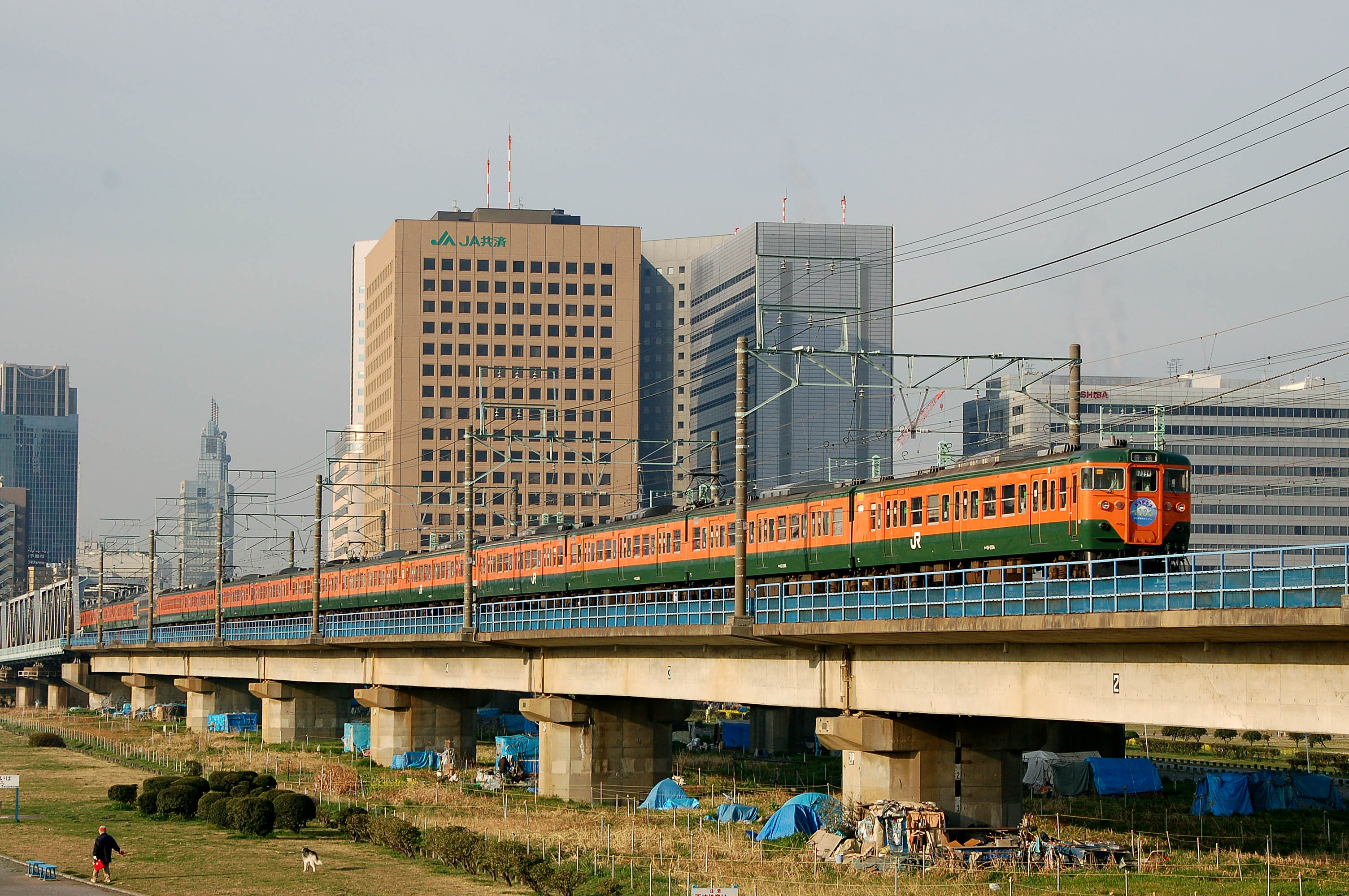 JR East (previously JNR) 113 series electric car with last run headsign. さよならHMを纏った東海道線東京口の113系。川崎-品川間にて。